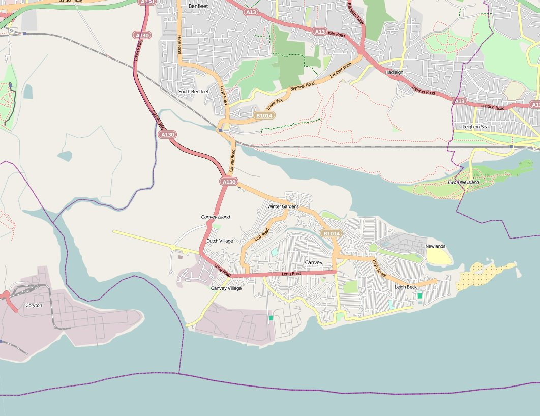 Map of Canvey Island (Essex, United Kingdom) and its surrounding areas.